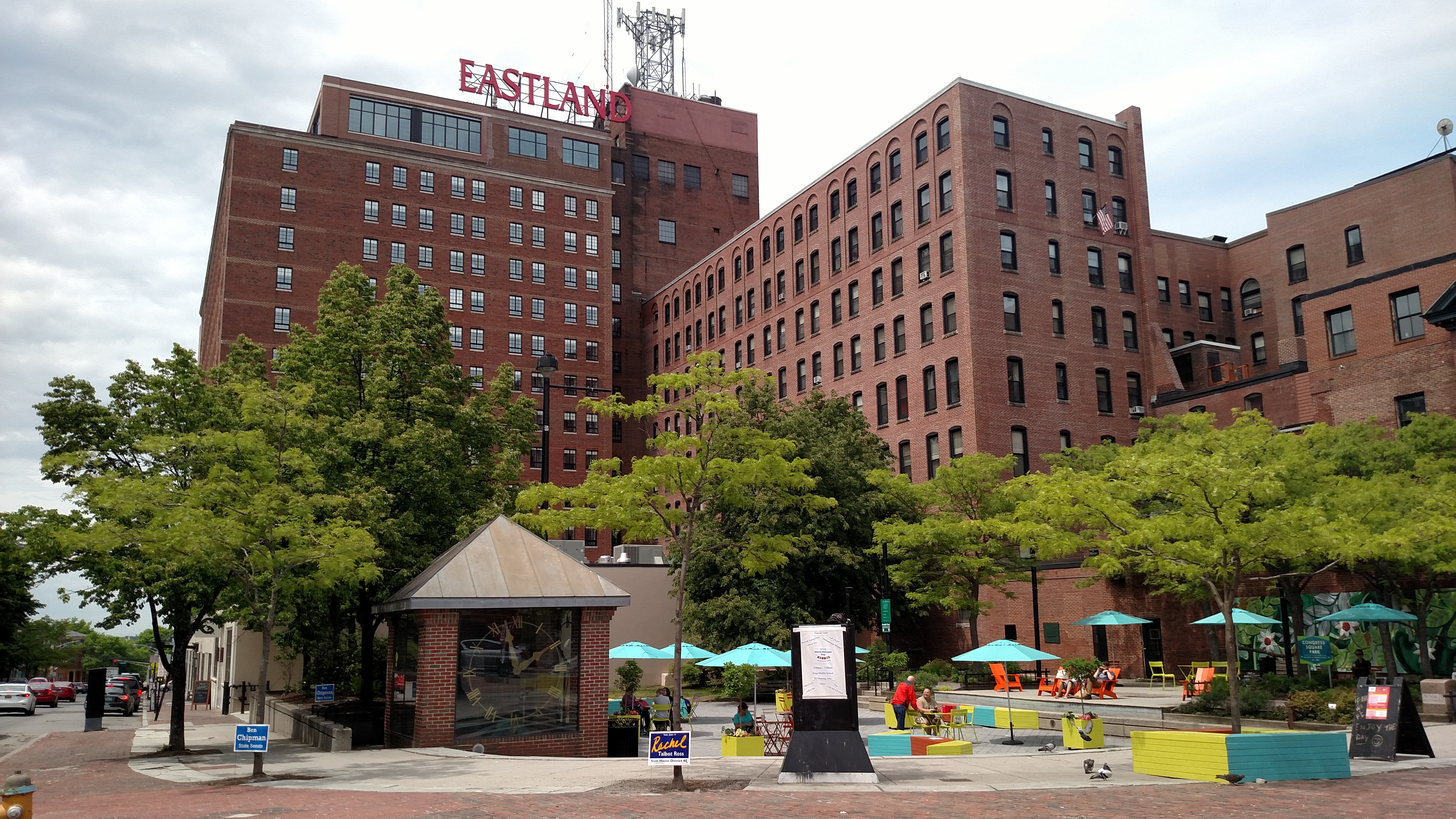 westin hotel and congress square park